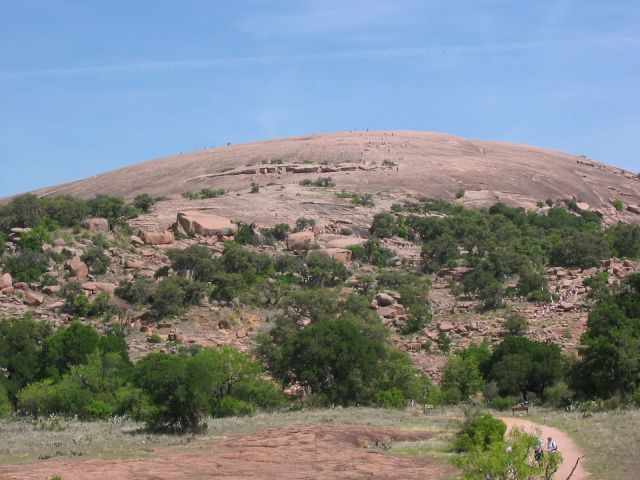 Enchanted Rock as viewed from the trail leading to the summit. People climbing on the summit (visible as dots) give an idea of the scale of the granite rock. Source: Photo taken by uploader, April 14, 2006.